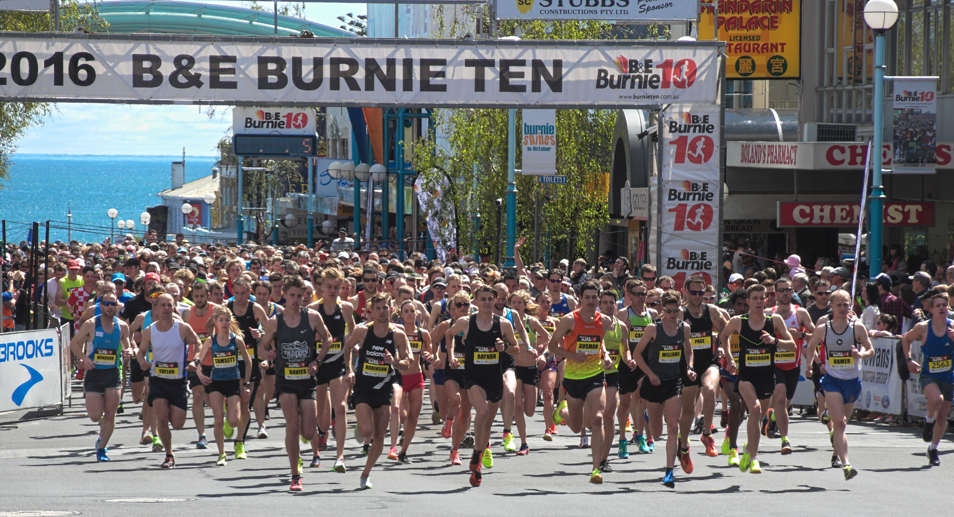 2016 Burnie Ten, start of the main 10km event in Wilson Street.